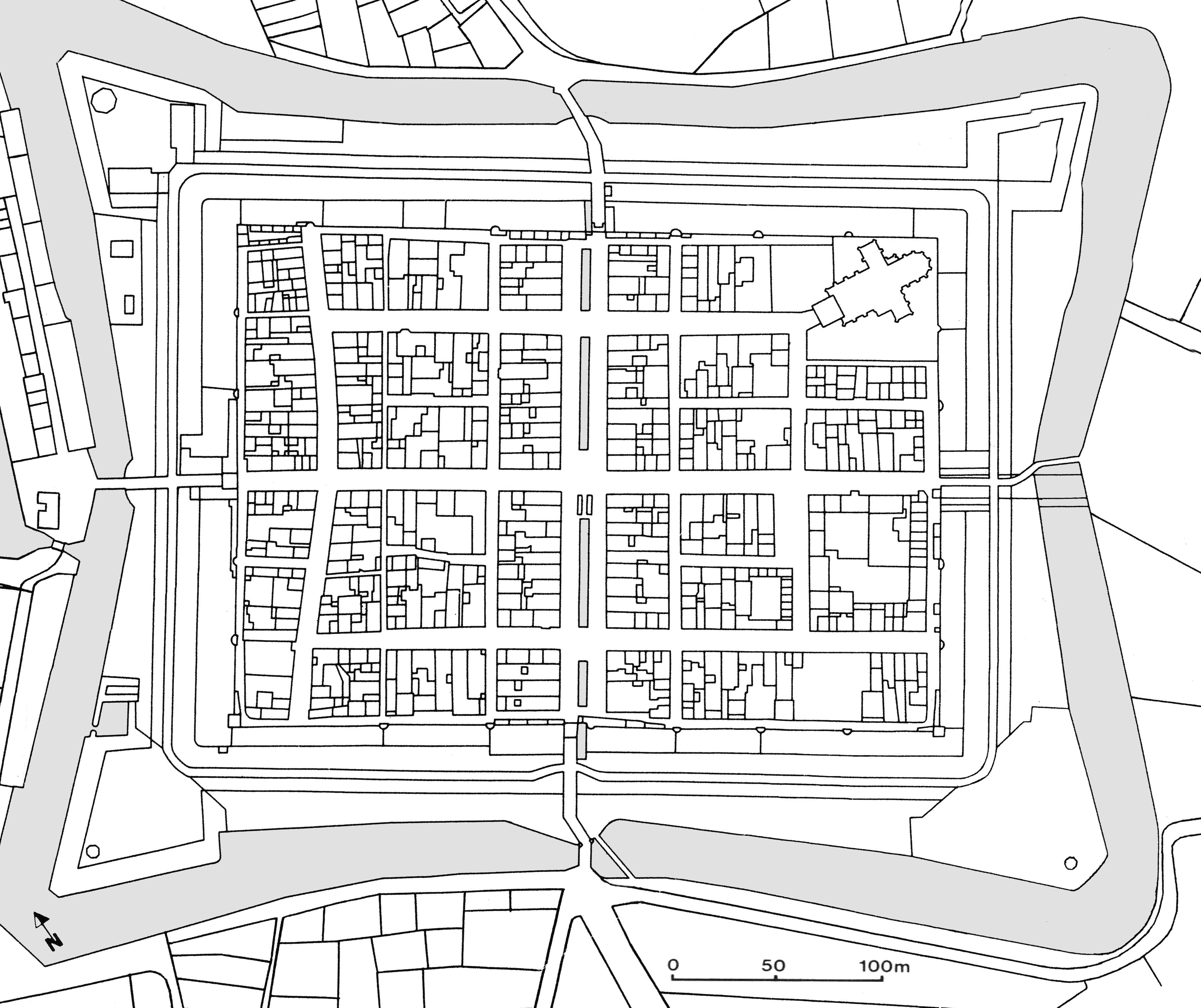 Plan of the town of Elburg in The Netherlands. Made by Wim Boerefijn, after cadastral plan of 1830. Depicted in Wiki article Urban planning.